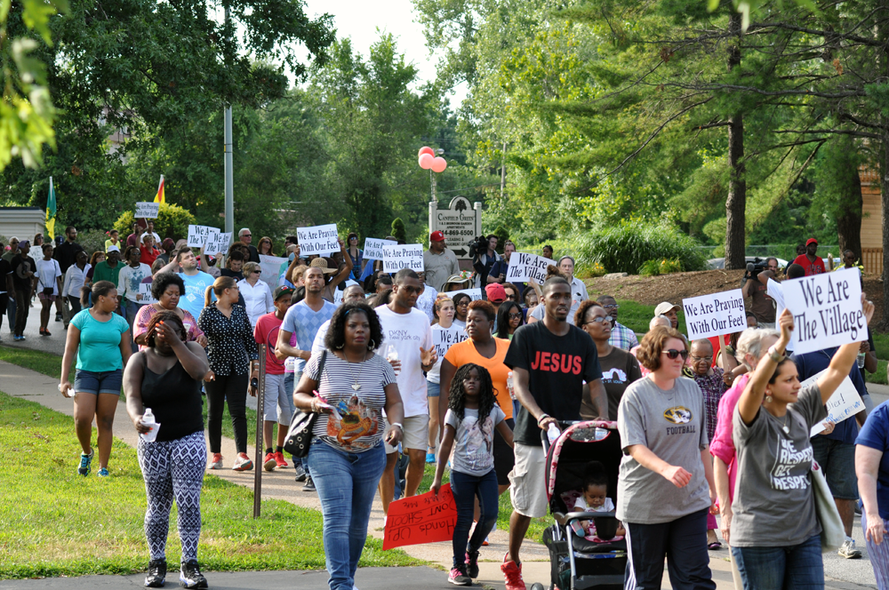 More people march in.